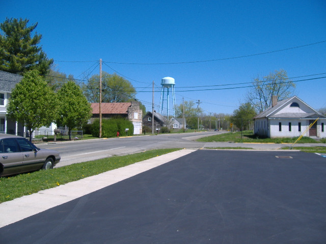 Looking east on Water Street (Ohio Highway 316) in Darbyville, Ohio